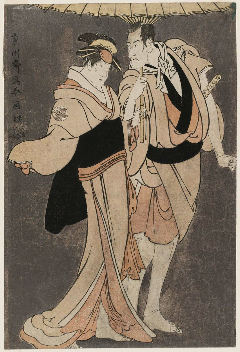 Ukiyo-e print by Tōshūsai Sharaku of kabuki actors Ichikawa Komazo III as Kameya Chubei and Nakayama Tomisaburo as Umegawa